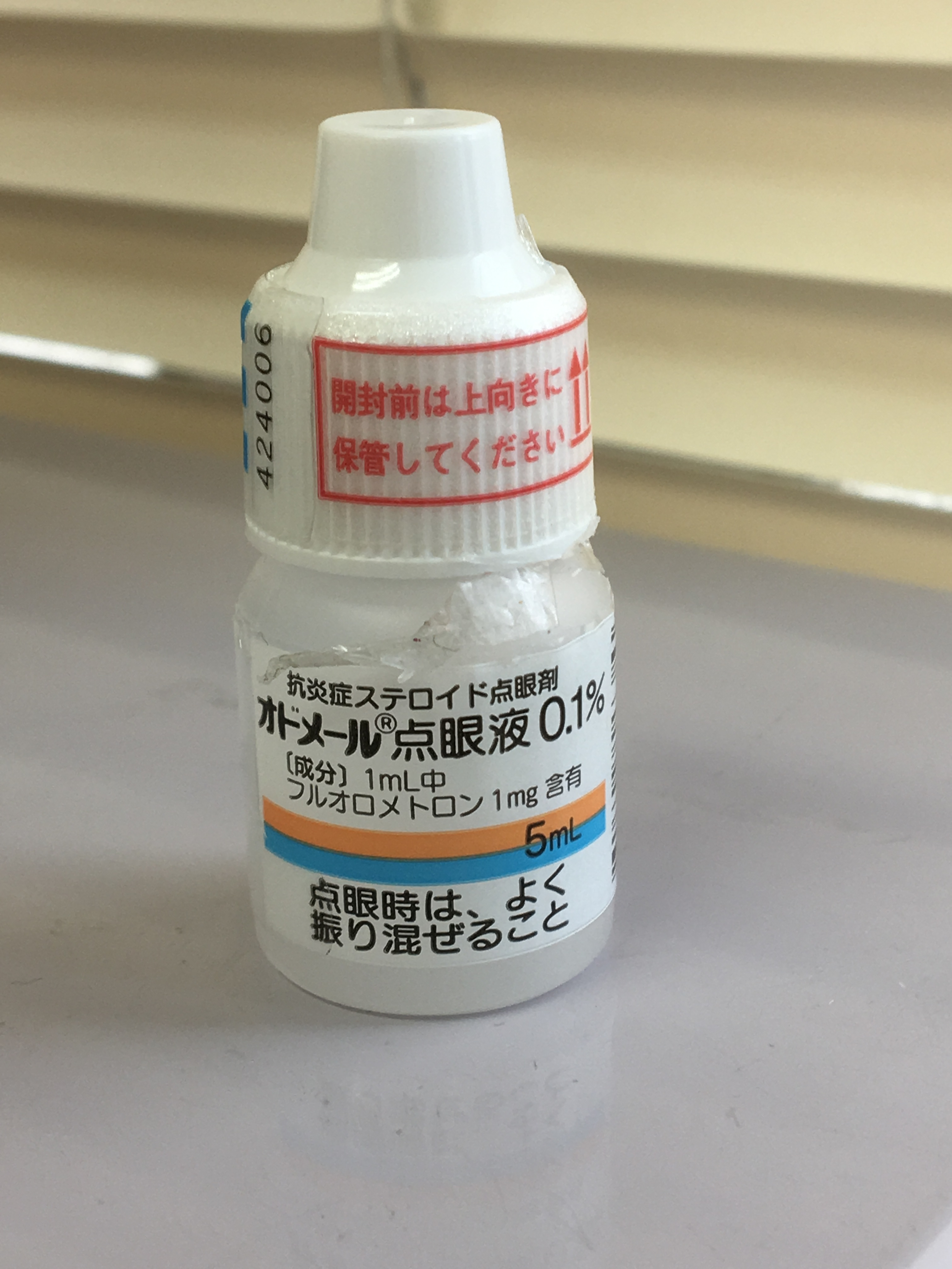 fluorometholone ophthalmic solution C22H29FO4